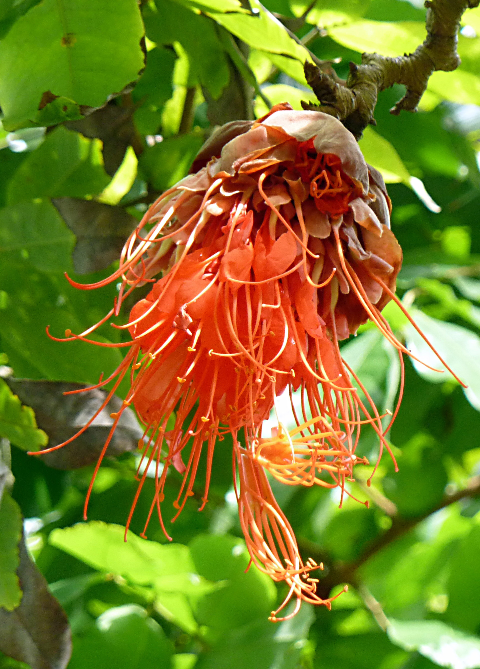 Brownea macrophylla at Ho'omaluhia Botanical Garden in Kaneohe, HI, USA